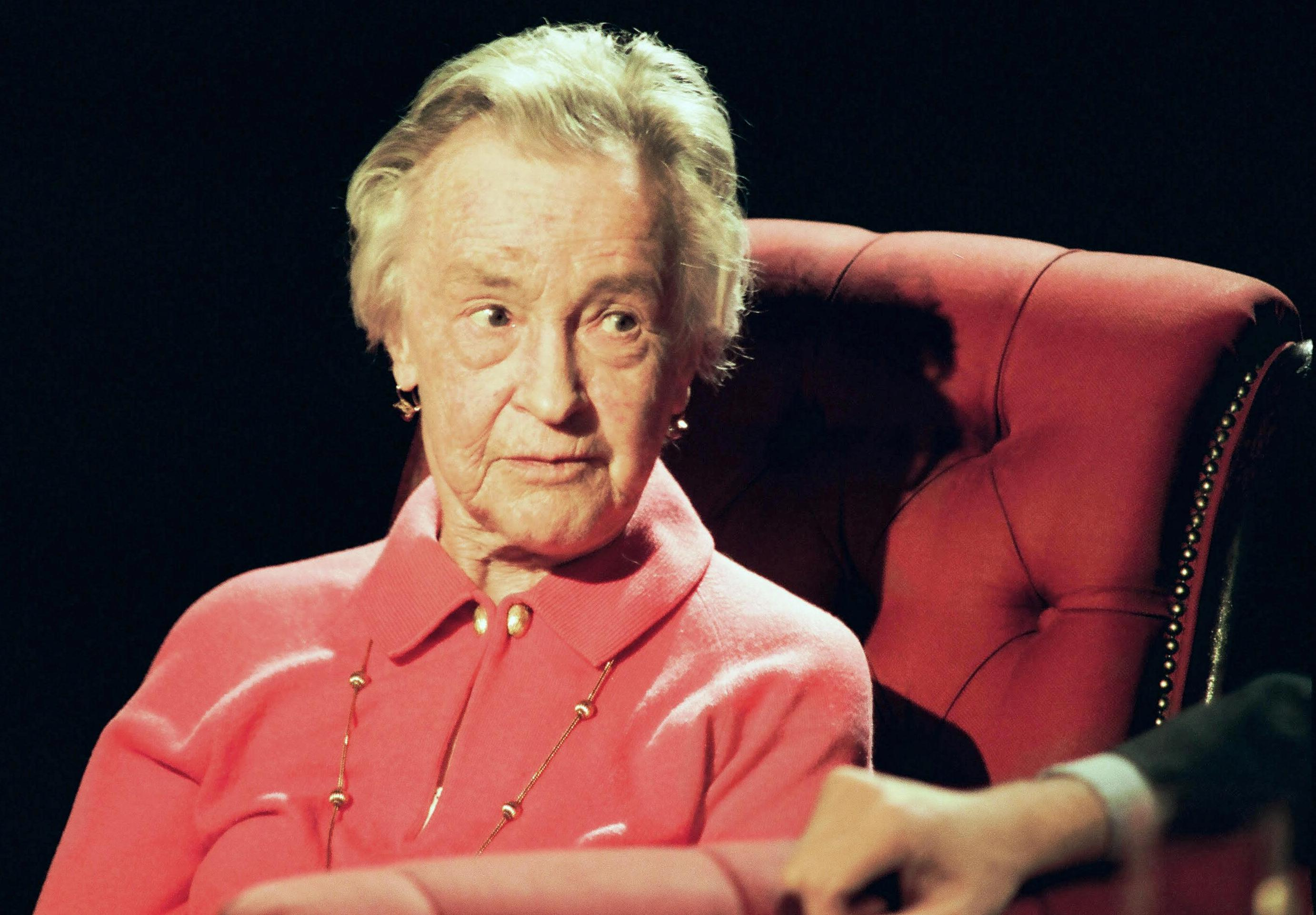 Dame Josephine Barnes appearing on television discussion programme After Dark in 1997